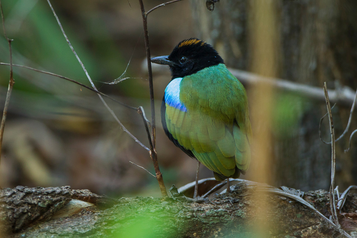 Rainbow Pitta - Howard Springs - Darwin_S4E4031